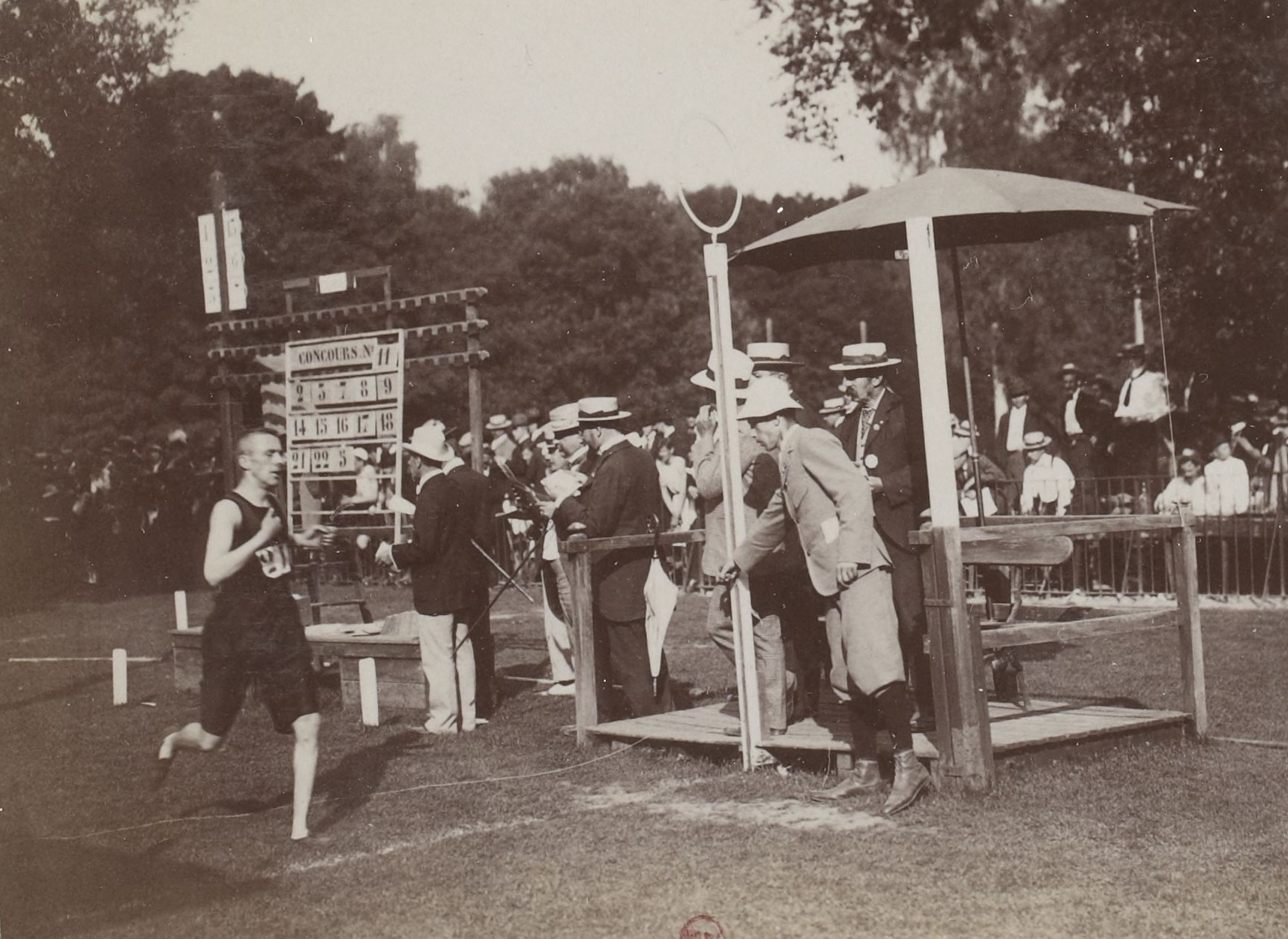 [Collection Jules Beau. Photographie sportive] : T. 13. Année 1900 / Jules Beau : F. 44. [Les sports à l'Exposition : championnats du monde d' athlétisme, amateurs]; ce concurrent n'est ni Théato (dossard), ni Champion (tunique)